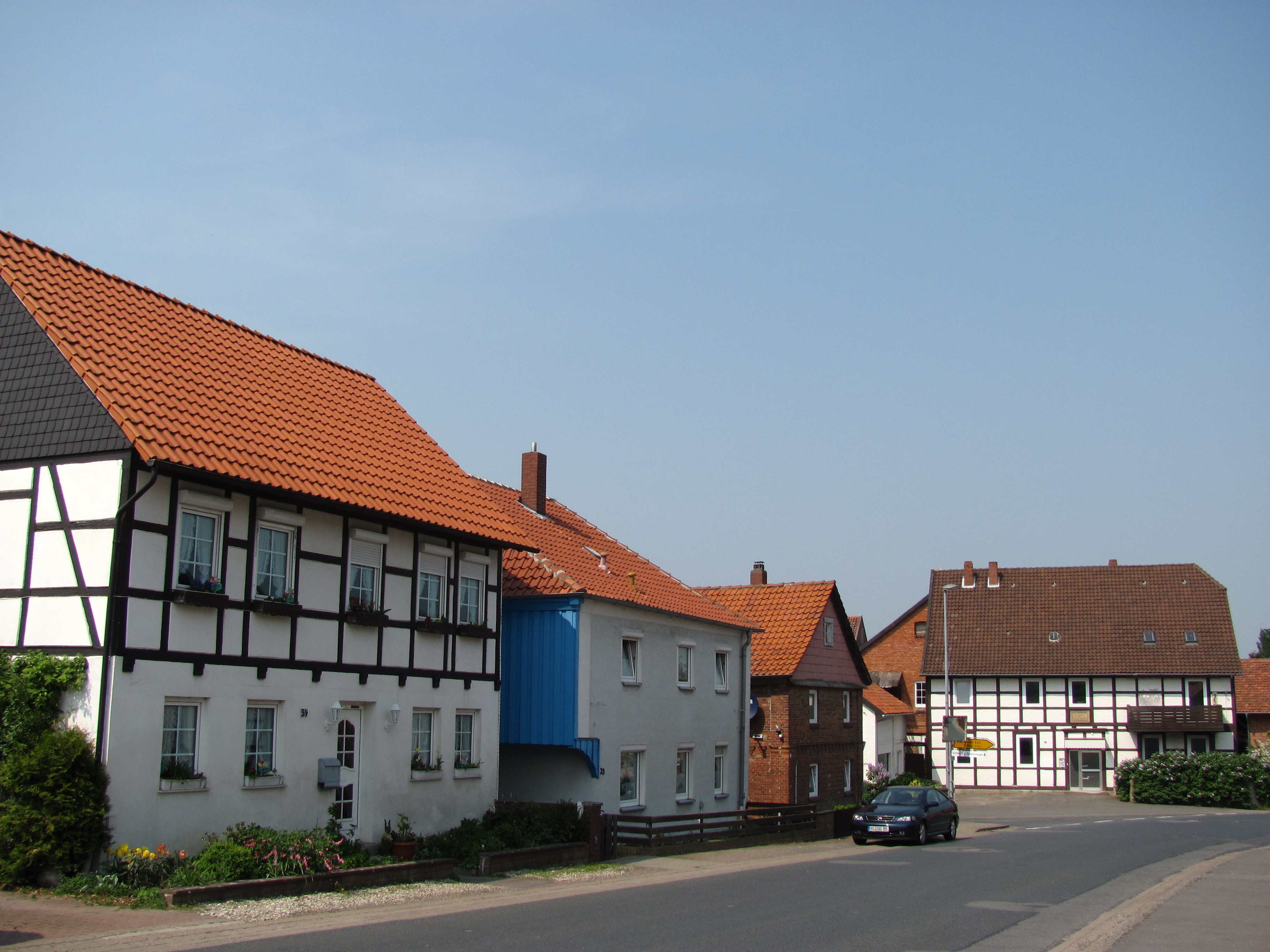 Half-timbered houses in the high street, Schellerten-Ottbergen, Lower Saxony, Germany